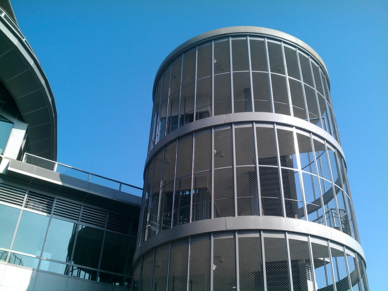 Xinzhuang Civil Sports Center architecture 中文（台灣）: 新莊國民運動中心建築外觀